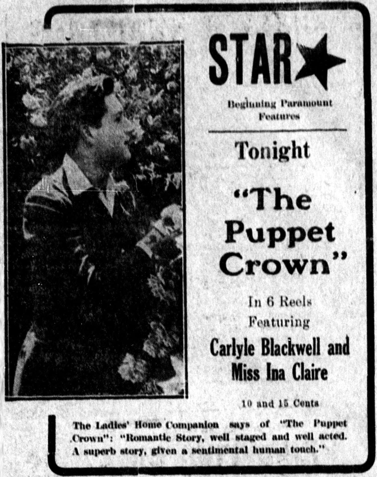 The Puppet Crown is a 1915 American drama silent film directed by George Melford and written by Harold MacGrath and William C. deMille. This is a newspaper advert for the film.